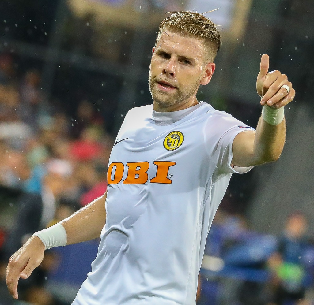 Yoric Ravet with Young Boys in an UEFA Champions League game against CSKA Moscow.